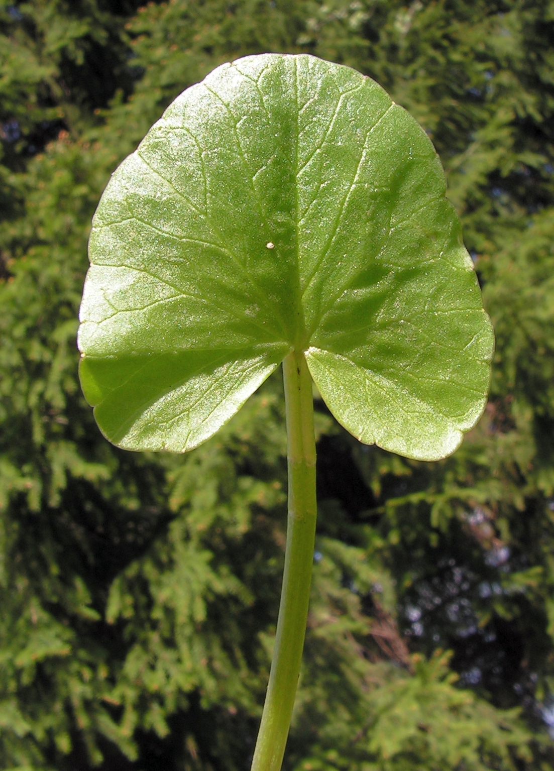 The leaf of Ficaria verna. Moscow region, Russia.